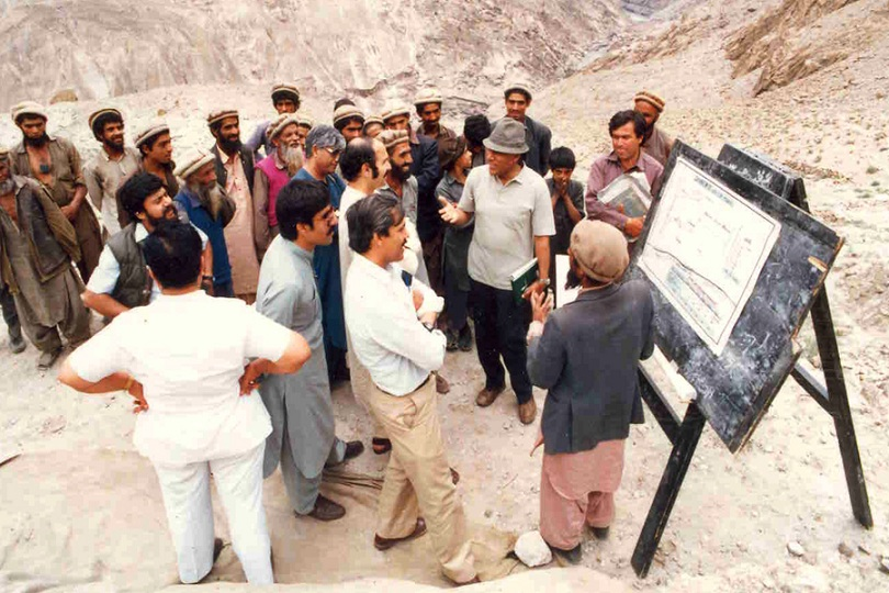 Shoaib Sultan Khan in field